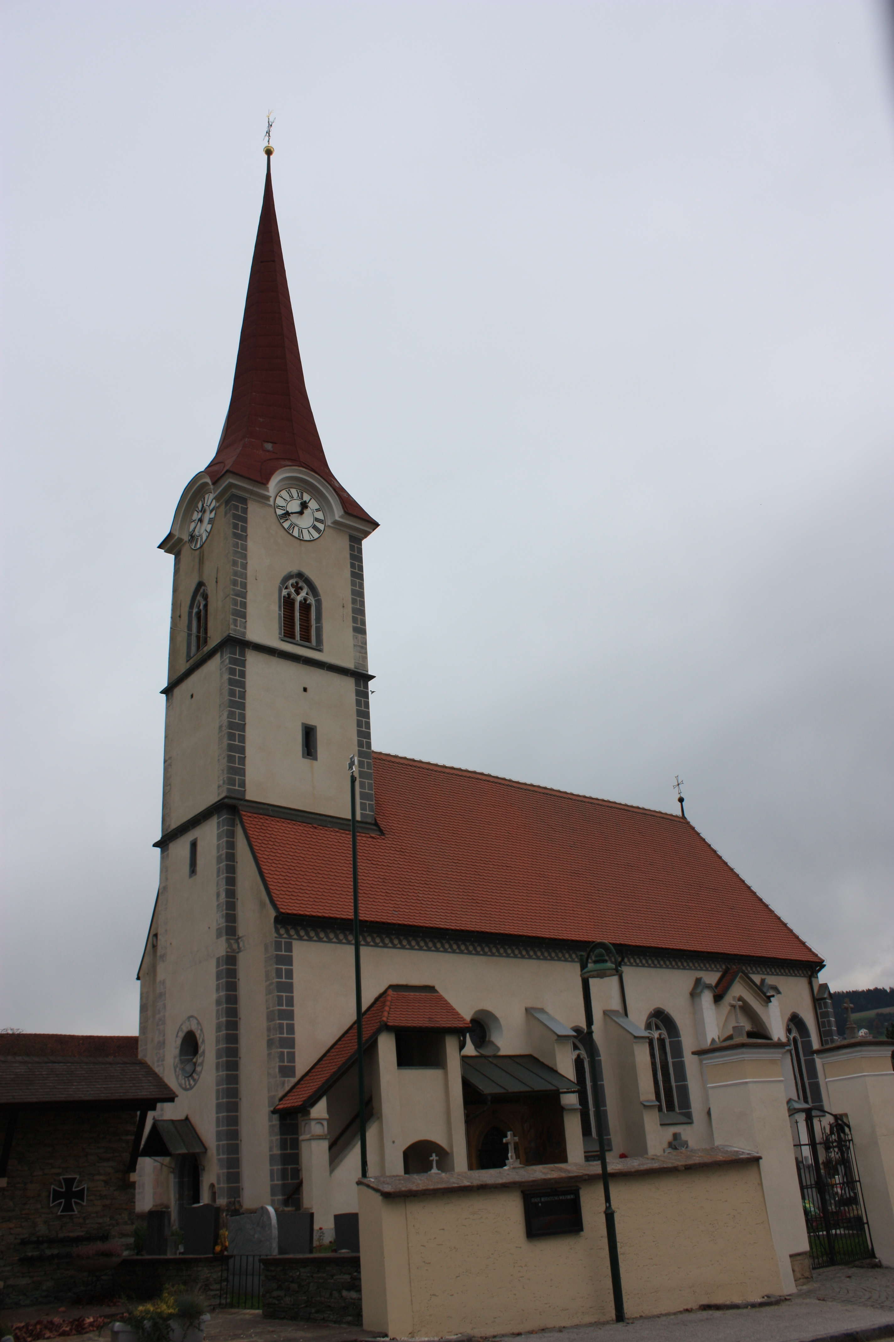 Parish church Saint Margareta Locality: Sankt Margareten im Lavanttal Community:Wolfsberg